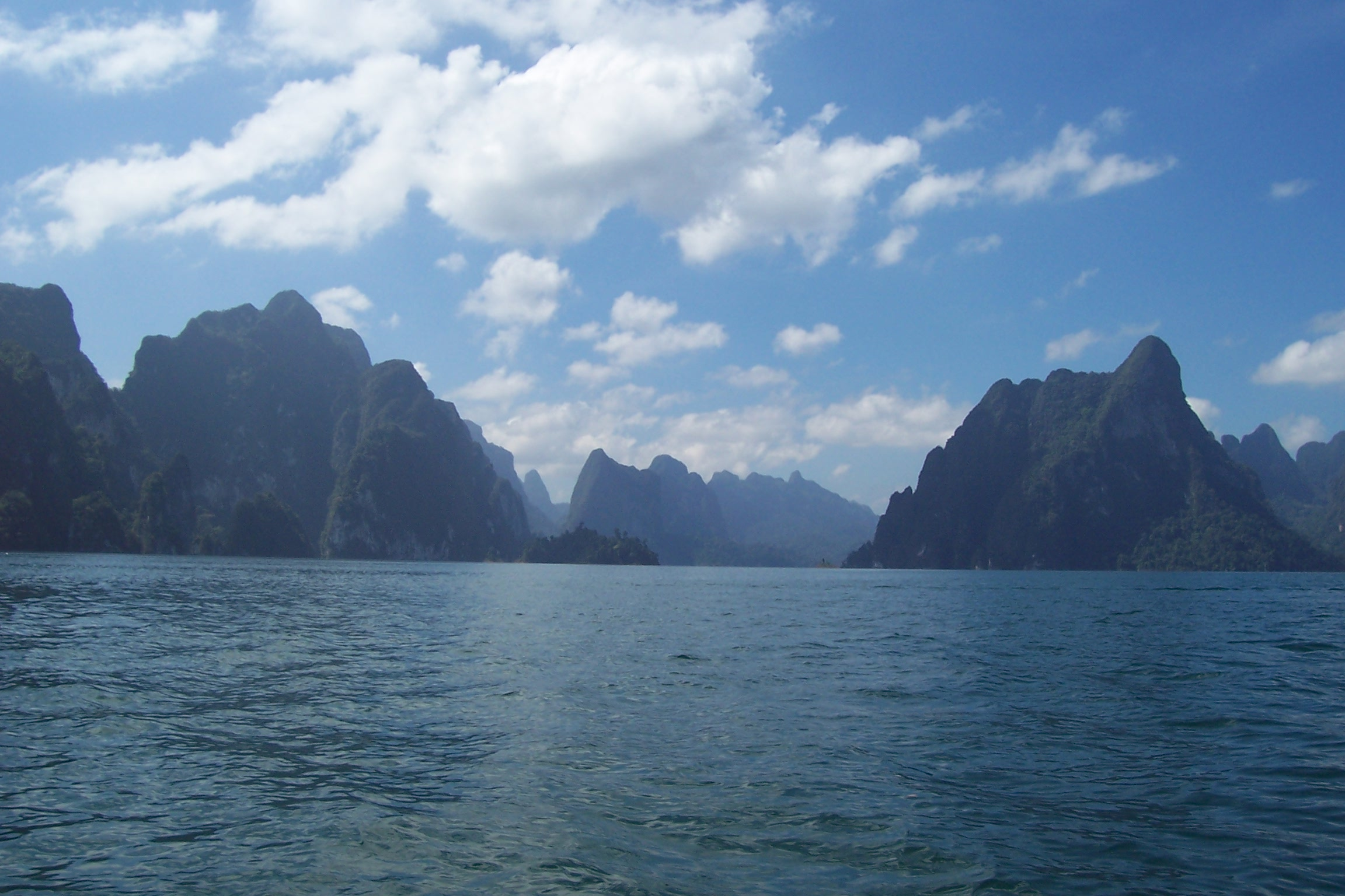 Chieo Lan See, Khao Sok National Park, Thailand